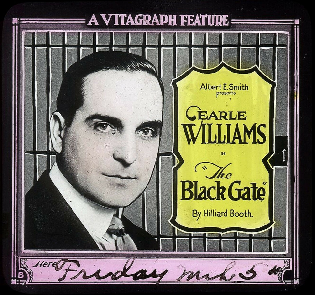 This is a lantern slide for the American silent mystery film The Black Gate (1919).